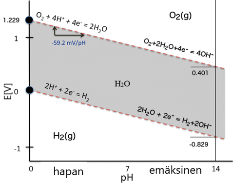 Veden stabiilisuus Pourbaix-diagrammissa